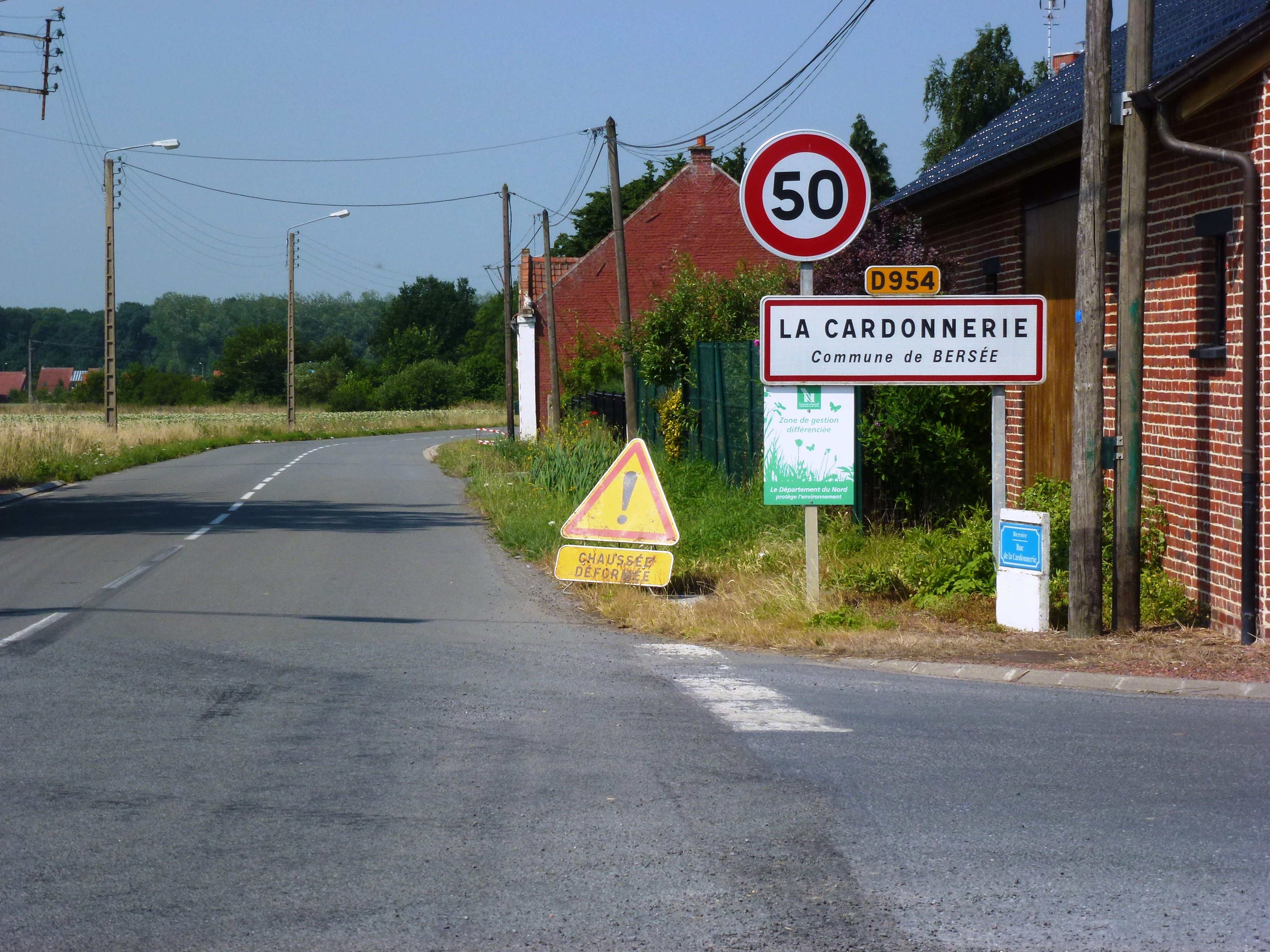 Bersée (Nord, Fr) city limit sign La Cardonnerie